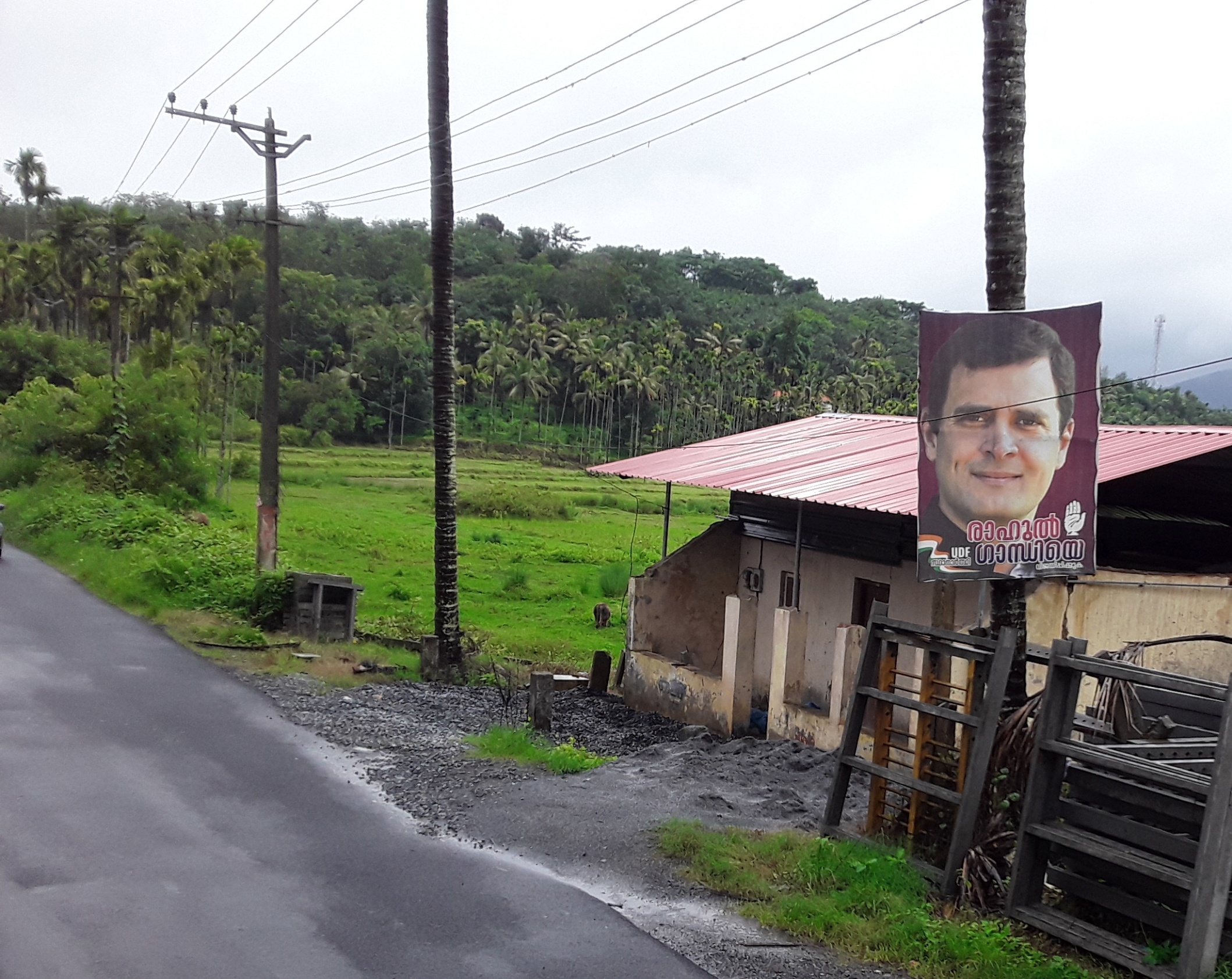 Indian politician Rahul Gandhi was elected from Wayanad as a parliament member of the country in the year 2019. This picture was taken in Kattikkulam village, Mananthavady, Wayanad district, Kerala state, India.